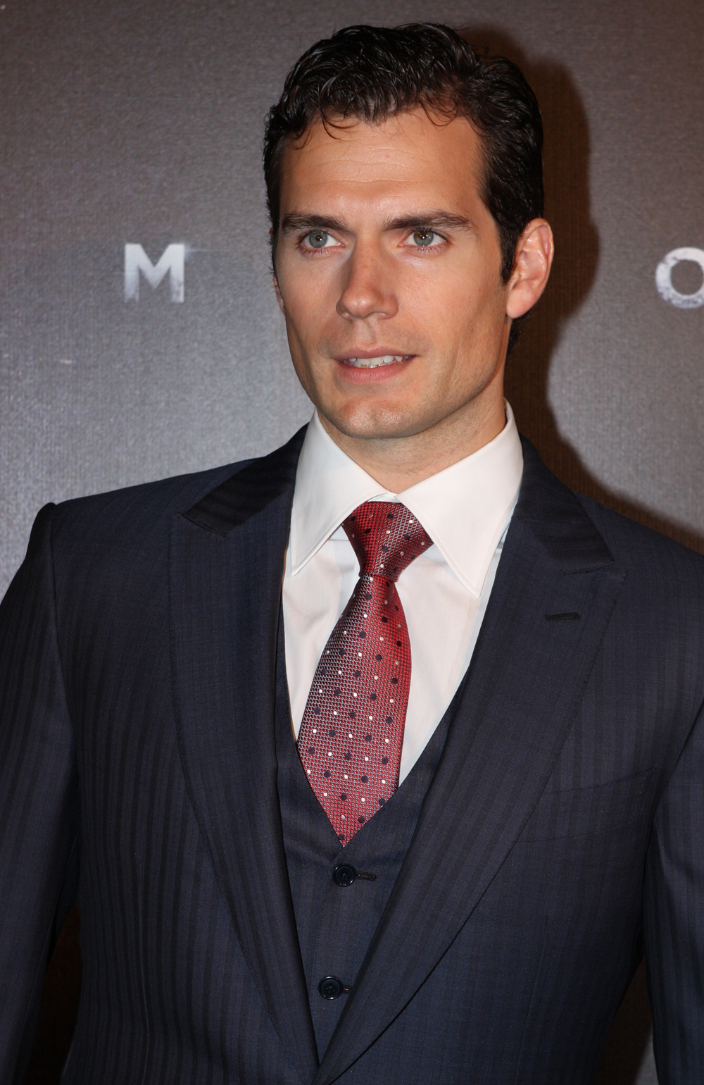 Henry Cavill at the Man Of Steel red carpet movie premiere, Sydney 2013.